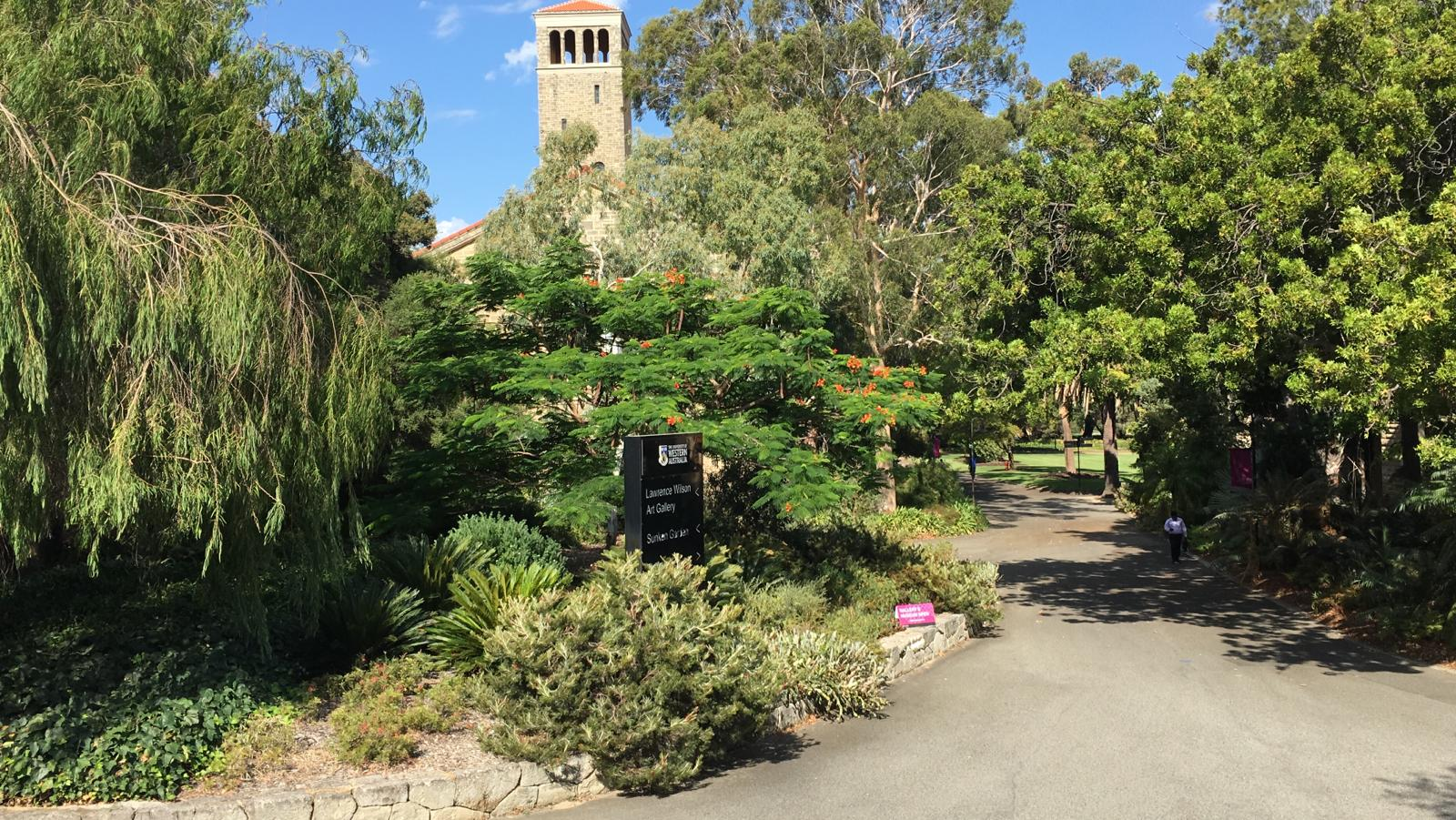 view from entrance to lawrence wilson art gallery at university of western australia